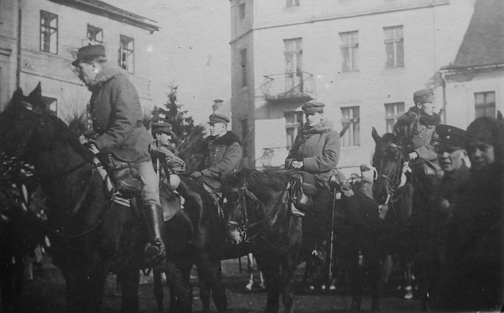 Czech soldiers on the town square in Hlucin 1920